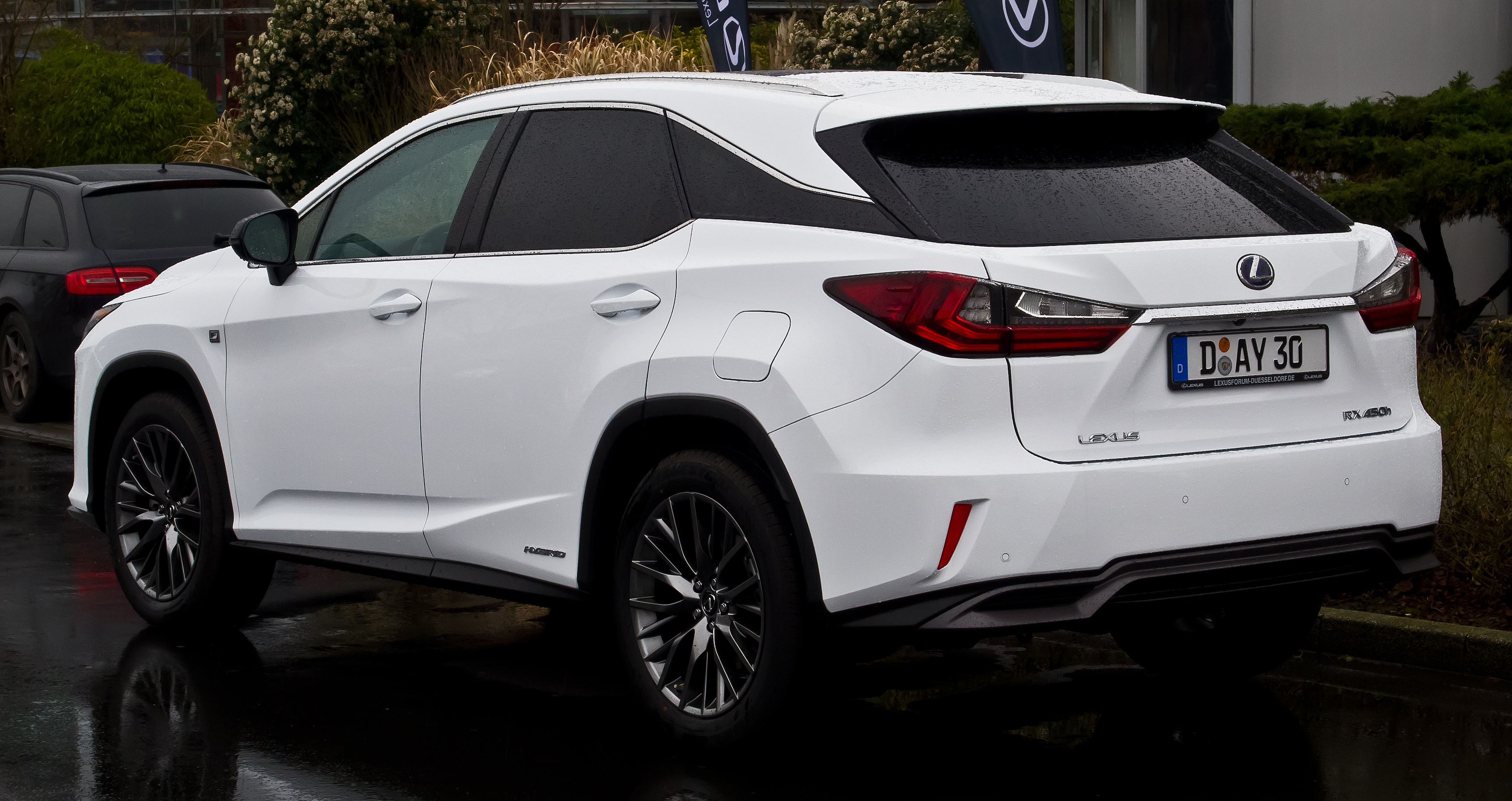 Lexus RX 450h F Sport (IV)